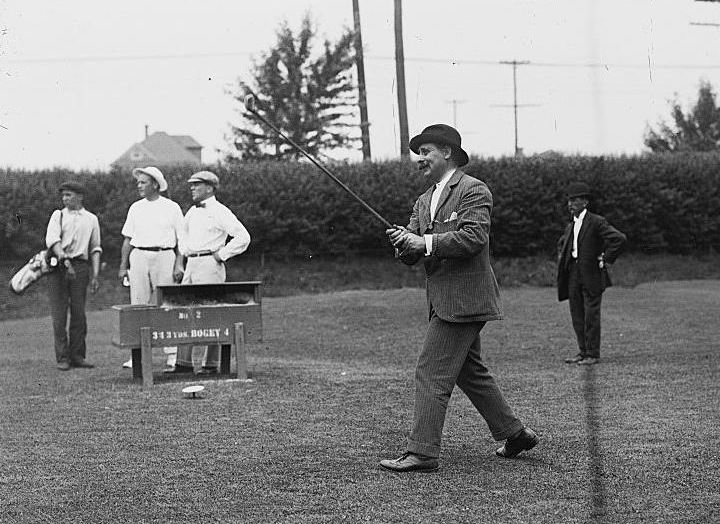 A 1913 photograph of English golf professional Tom Vardon.